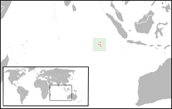 This is a locator map for the Cocos (Keeling) Islands I made.